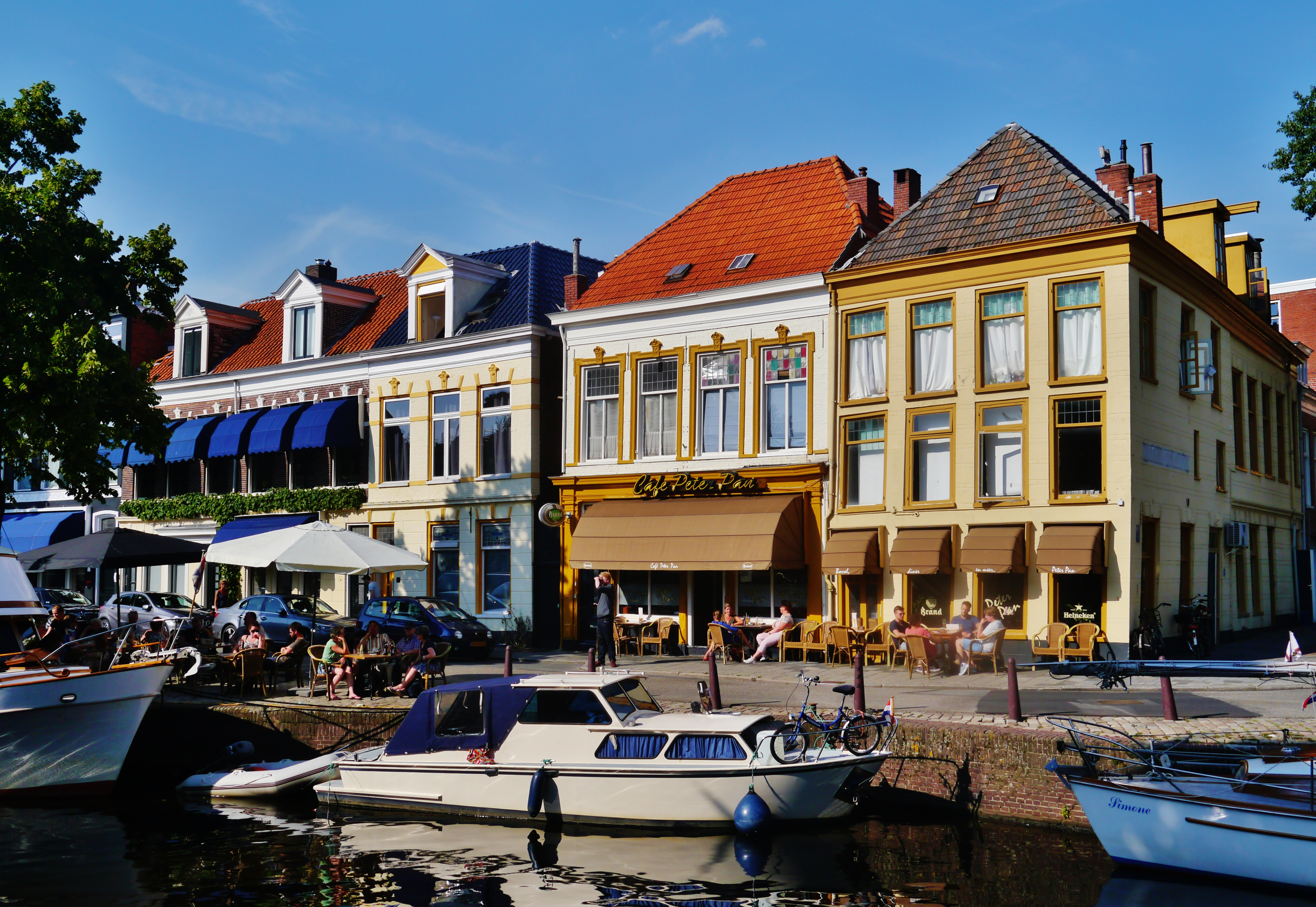 Canals in Groningen, Province of Groningen, Netherlands